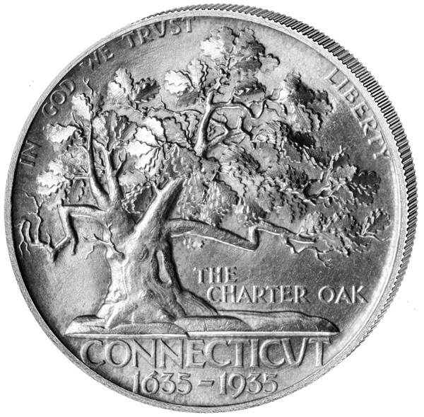 1935 Connecticut half dollar depicting the Charter Oak